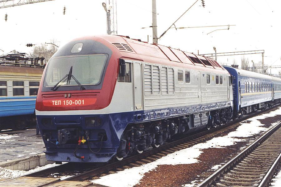 TEP-150 diesel locomotive in Kyiv, Ukraine